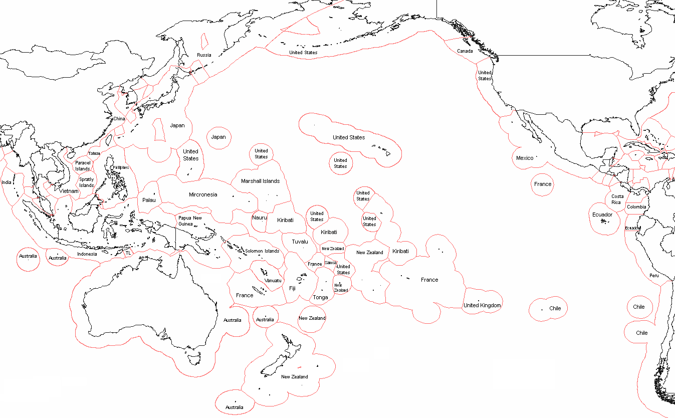 Political map of Oceania - based on EEZ borders